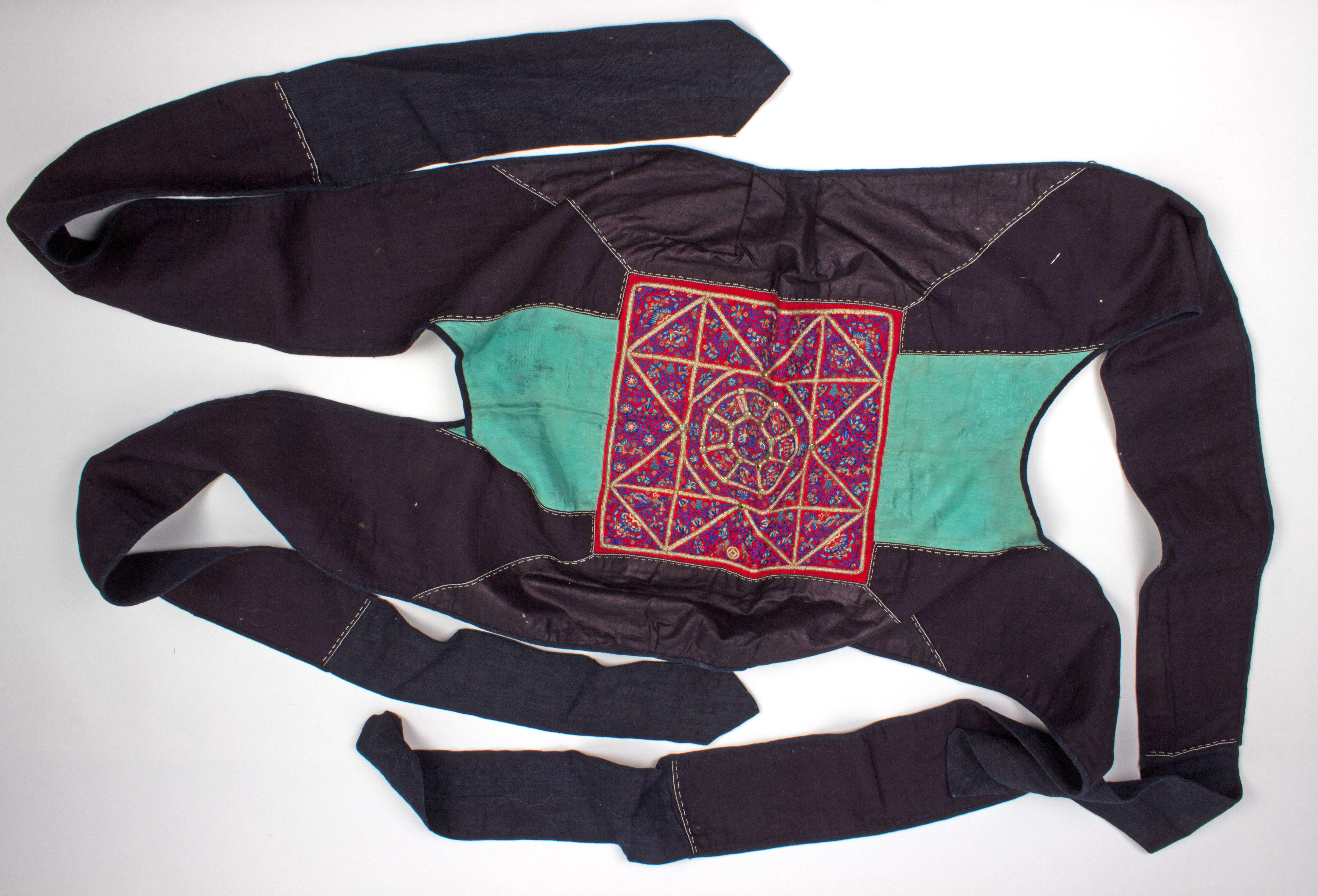 Baby back carrier (Chinese) Made for one of Mrs Lillian Choy's sons comprising of black and green fabric with red centre section incorporating embroidered geometric pattern Belonged to Mrs Lillian Choy